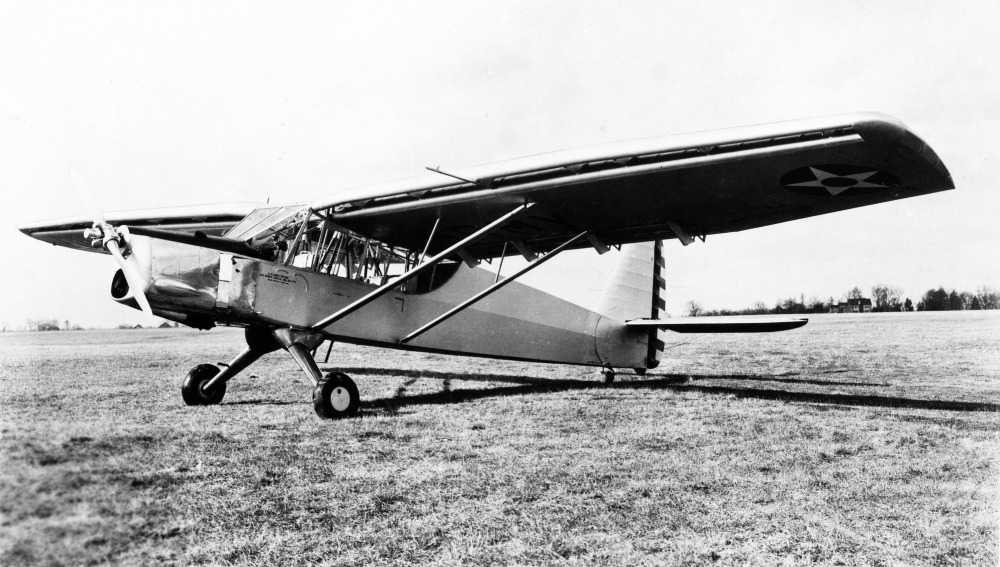 PictionID:40971902 - Title:Bellanca YO-50 - Catalog:15_002698 - Filename:15_002698.tif - Image from the Charles Daniels Photo Collection album "US Army Aircraft."----PLEASE TAG this image with any information you know about it, so that we can permanently store this data with the original image file in our Digital Asset Management System.----SOURCE INSTITUTION: San Diego Air and Space Museum Archive